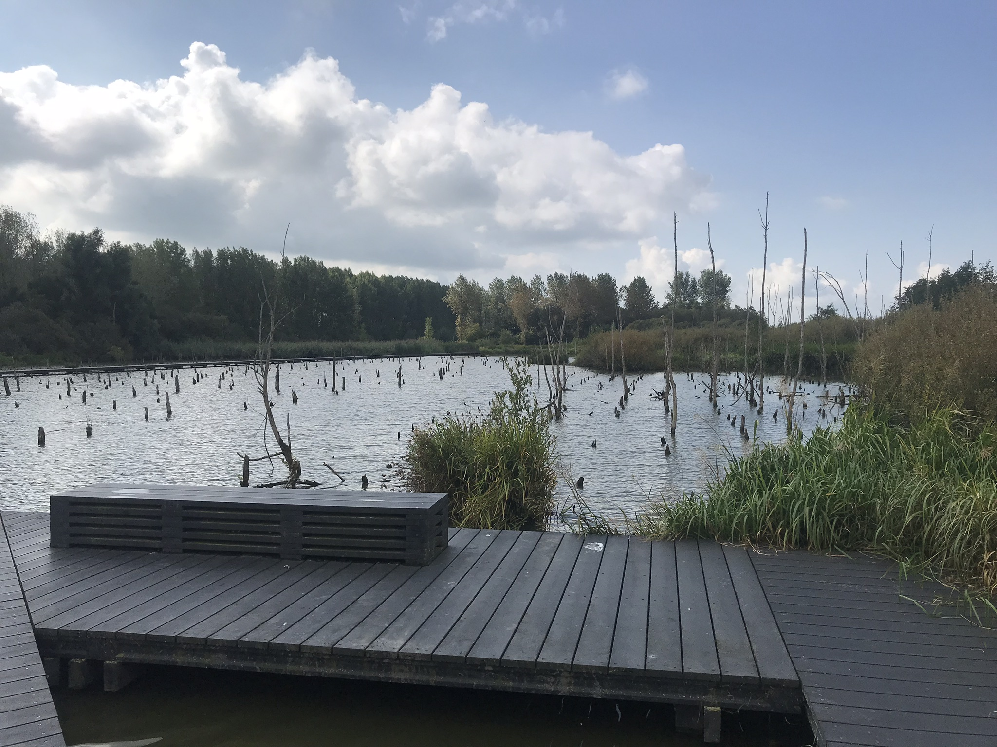 Geography